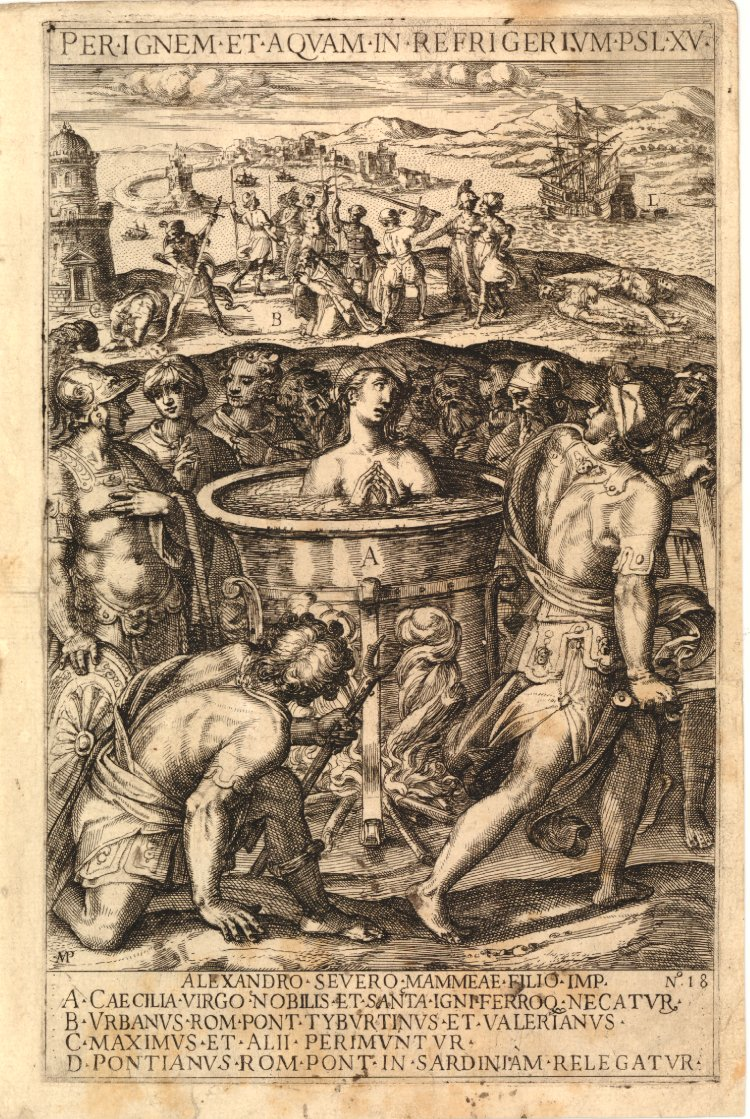 Church martyrs, with in the foreground St Cecilia standing in a cauldron of boiling water, after the fresco executed in San Stefano Rotondo by Niccolò Circignani